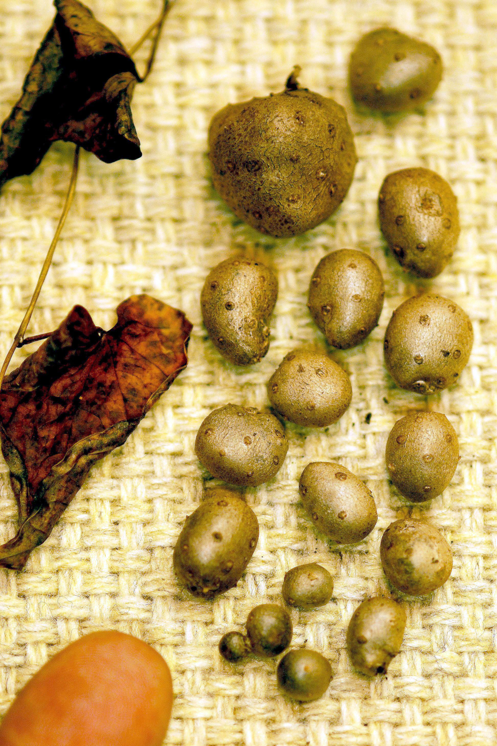 Chinese yam (Dioscorea polystachya) Turcz. - Root(s): In November bulbils - United States